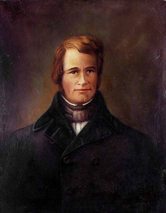 Thomas Walker Gilmer, Secretary of the Navy, 19 February 1844 - 28 February 1844